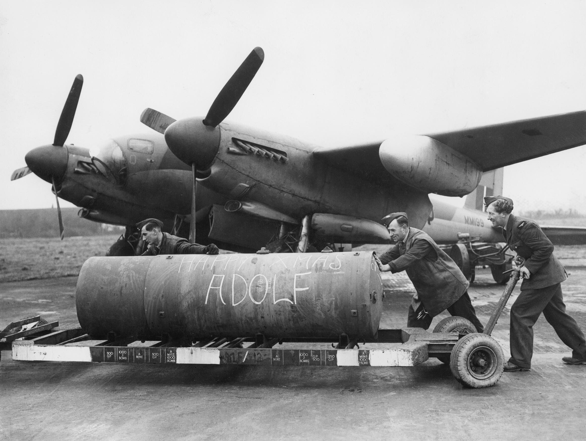 RAF Bomber Command 'Happy Xmas Adolf' - ground staff 'bombing up' Mosquito Mk XVI MM199 of No. 128 Squadron, No. 8 (PFF) Group, at Wyton with a 4,000 lb 'Cookie'. This aircraft was shot down by flak and crashed near the village of Benthe while on an operation to Hanover on the night of 4/5 February 1945. Lt Lt J K Wood and Fg Off R Poole were both killed.